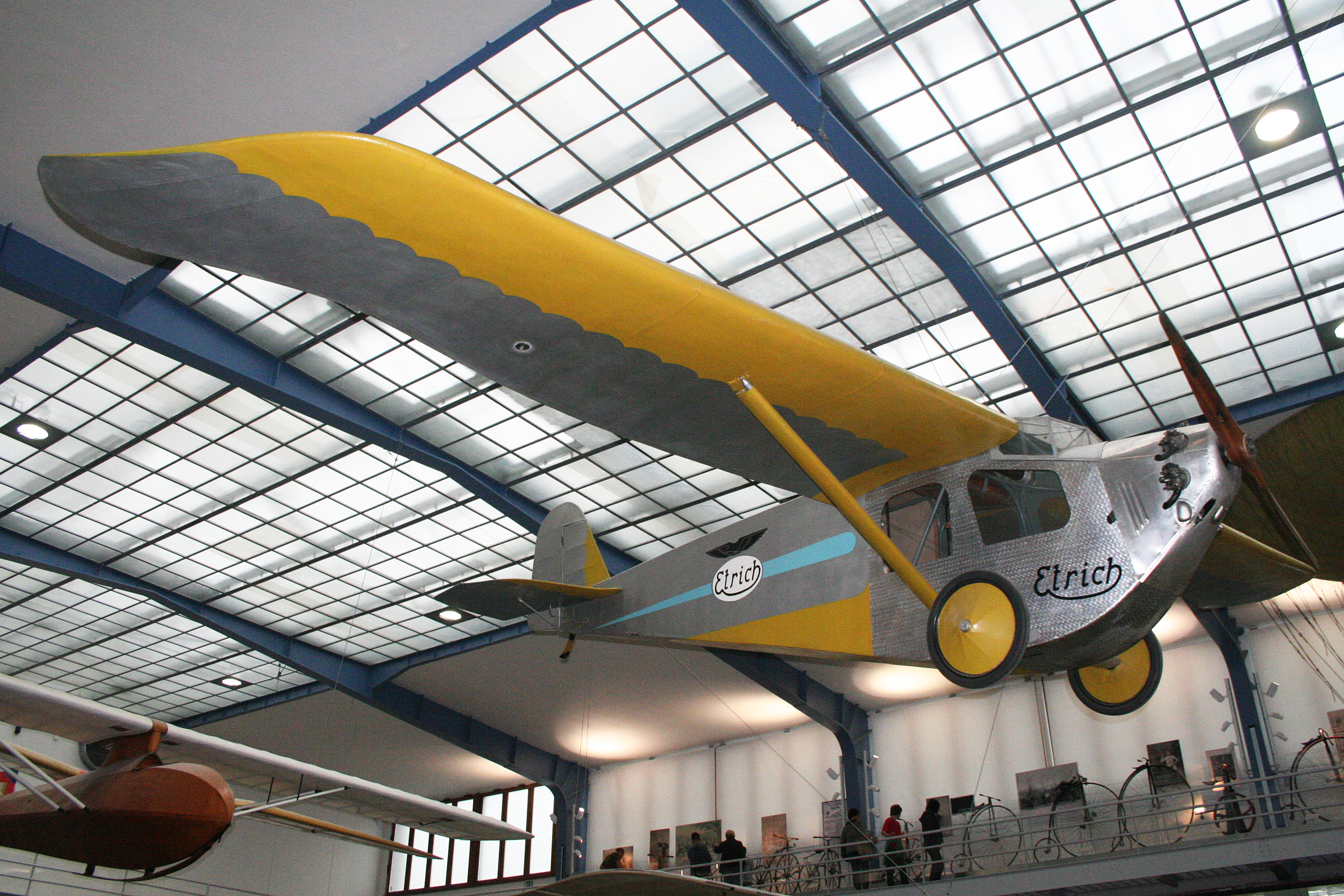 Etrich Sport-Taube at the National Technical Museum. Prague, Czech Republic. 07-10-2012